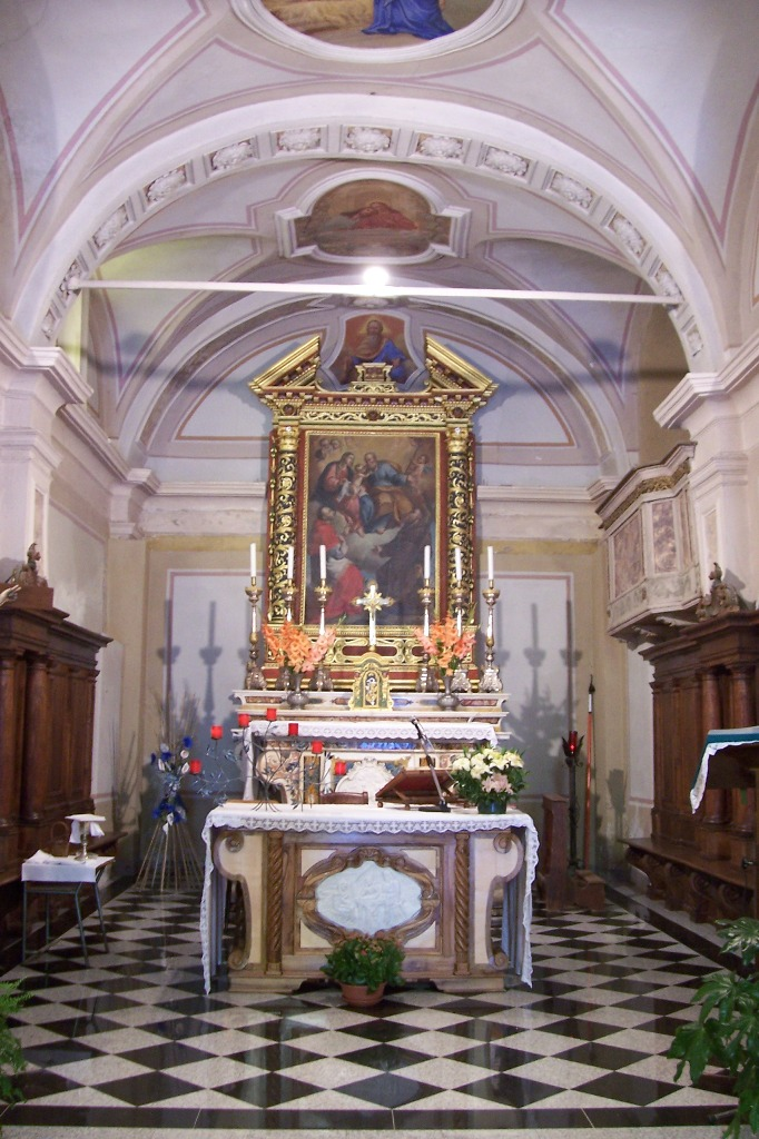 altar, Loritto, Malonno, Val Camonica